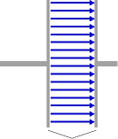 A capacitor